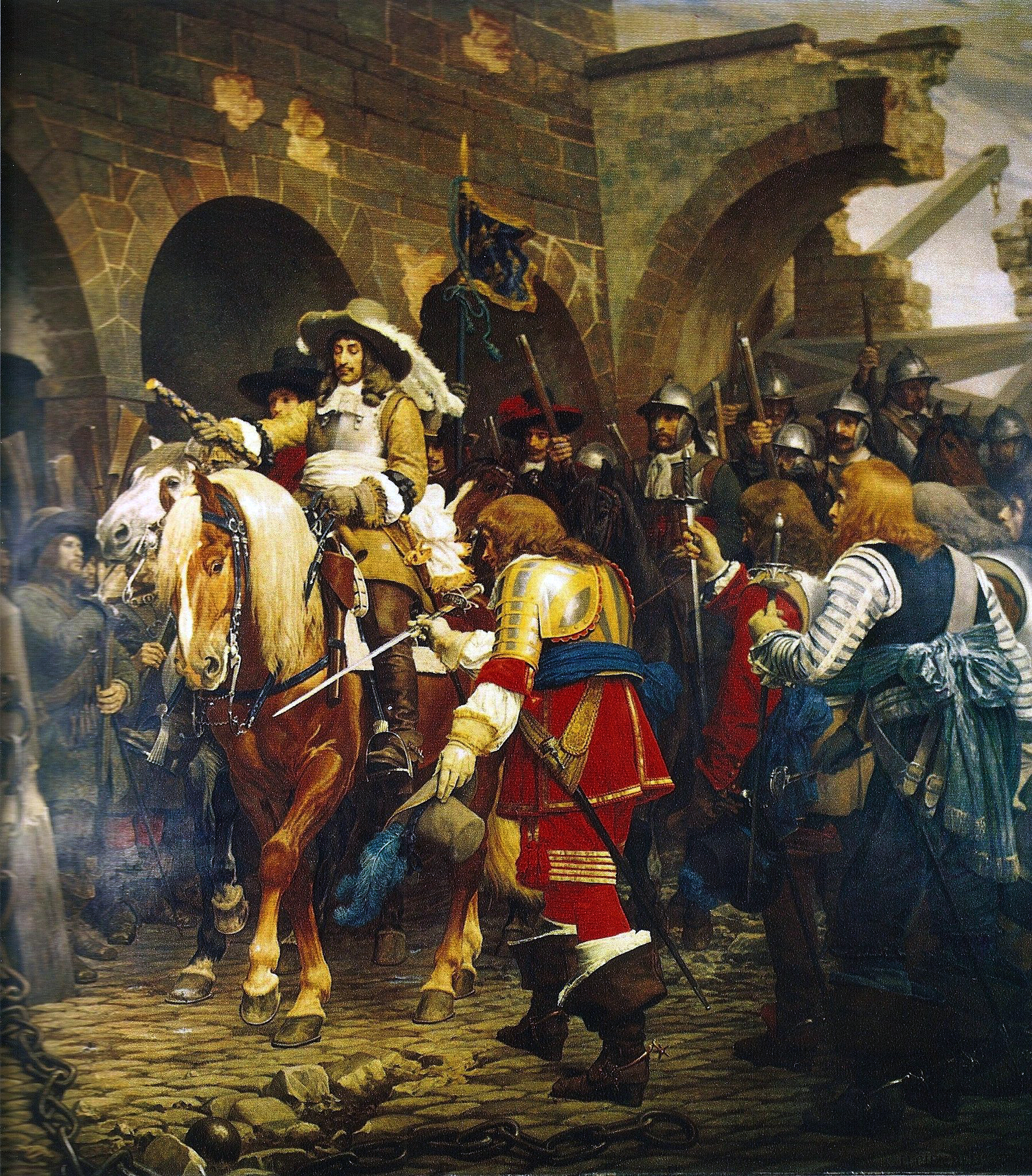 The Maréchal de la Ferté seizing Belfort defended by the Count of La Suze in 1654.